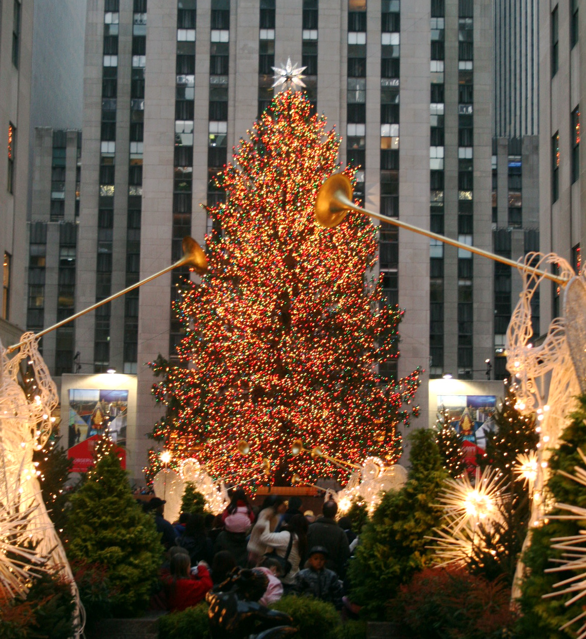 Christmas tree at Rockefeller Plaza, New York, 2006. Author: Alsandro